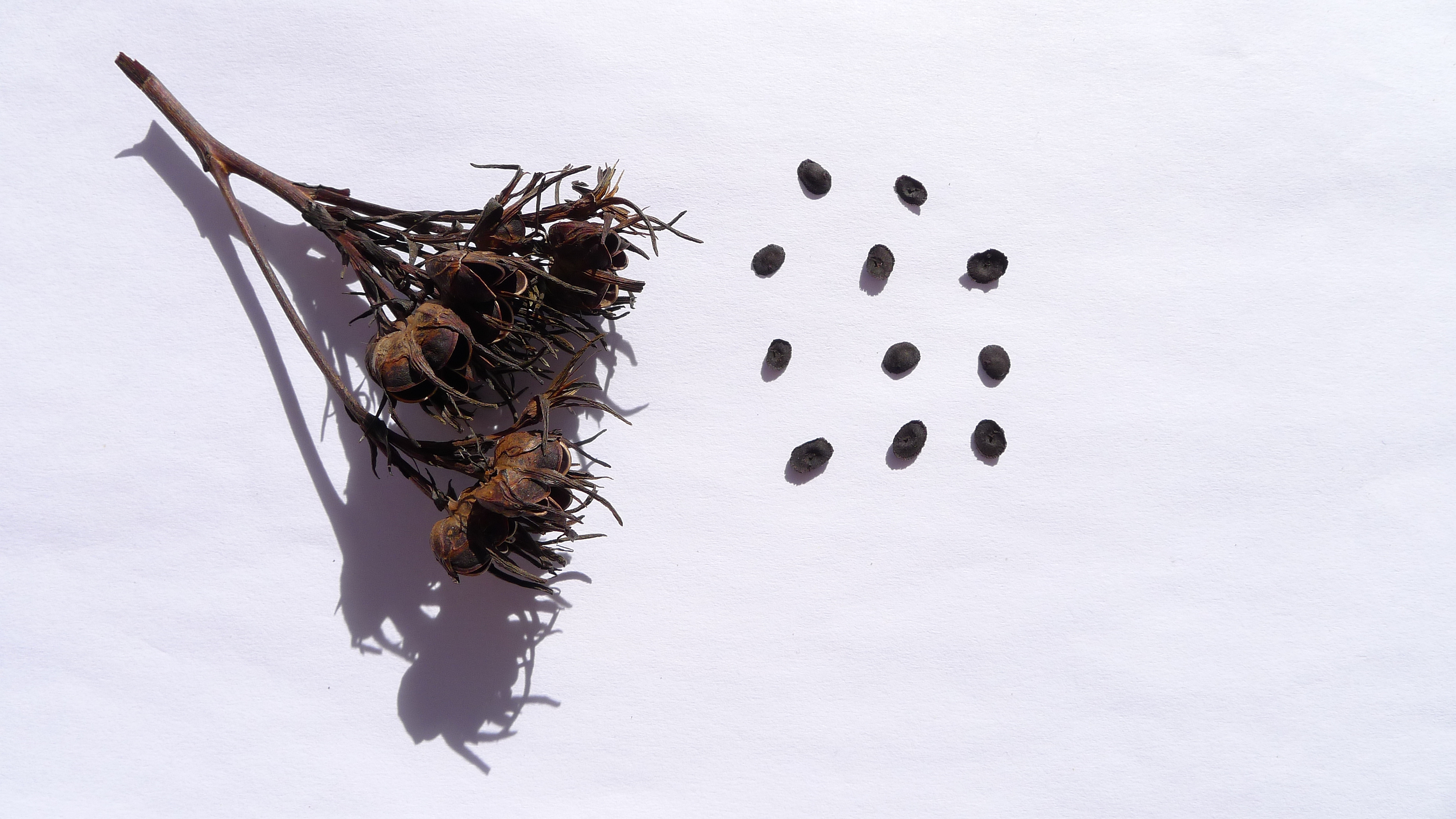 Strap-leaf Bloodroot, Haemodorum planifolium. Blue Mountains National Park, NSW Australia, July 2012.